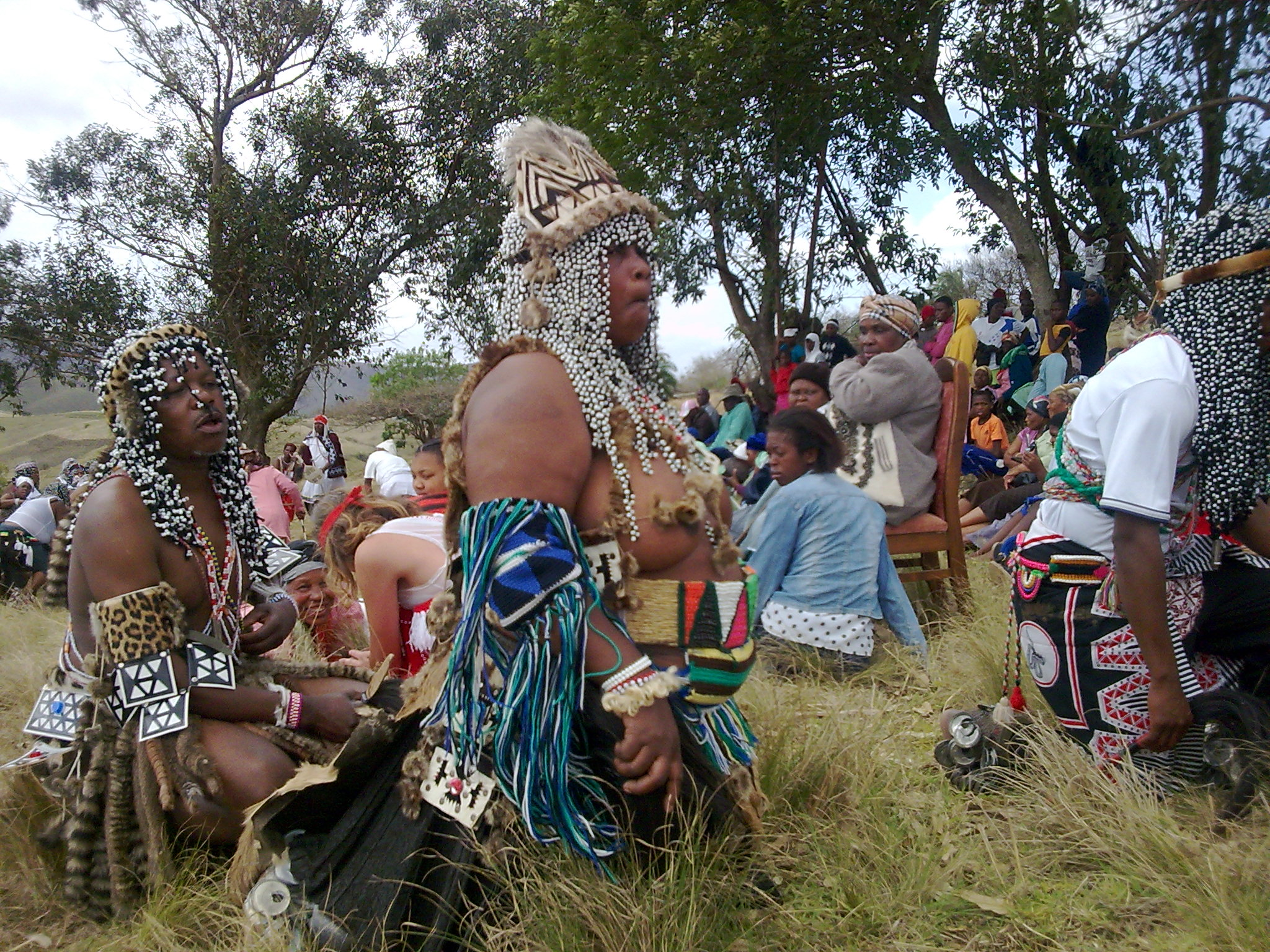 Sangomas greeting Kraal owner.